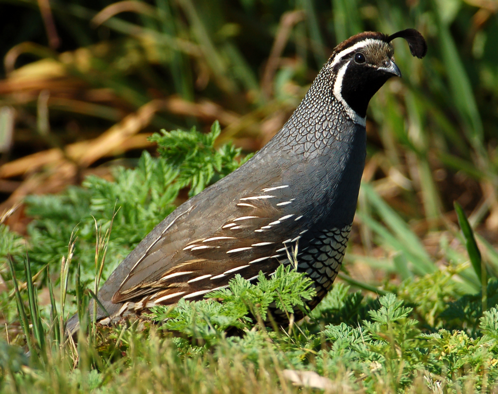 California Quail Callipepla californica, Marin Headlands, California